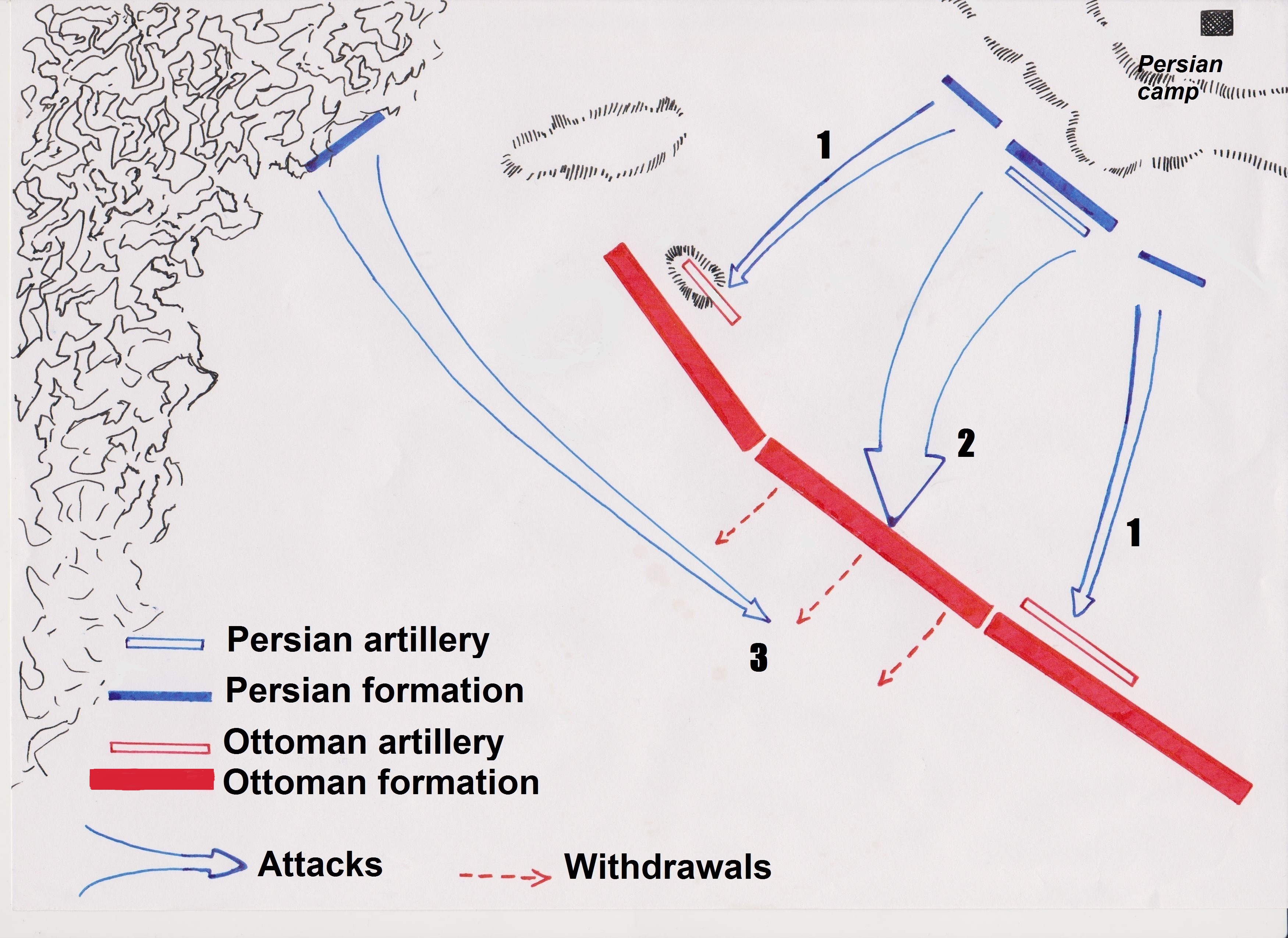 fdafsdaaaaaaa